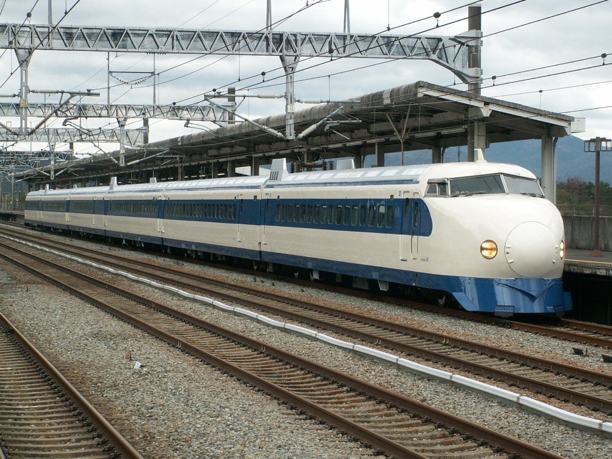 0 series shinkansen unit R67 for the Kodama 638 service at Higashi-Hiroshima Station